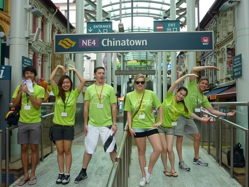 Participants of ABCC Xperience Singapore at Chinatown MRT Station. The event was part of the Asian Business Case Competition @ Nanyang organized by Nanyang Business School, Nanyang Technological University, Singapore.